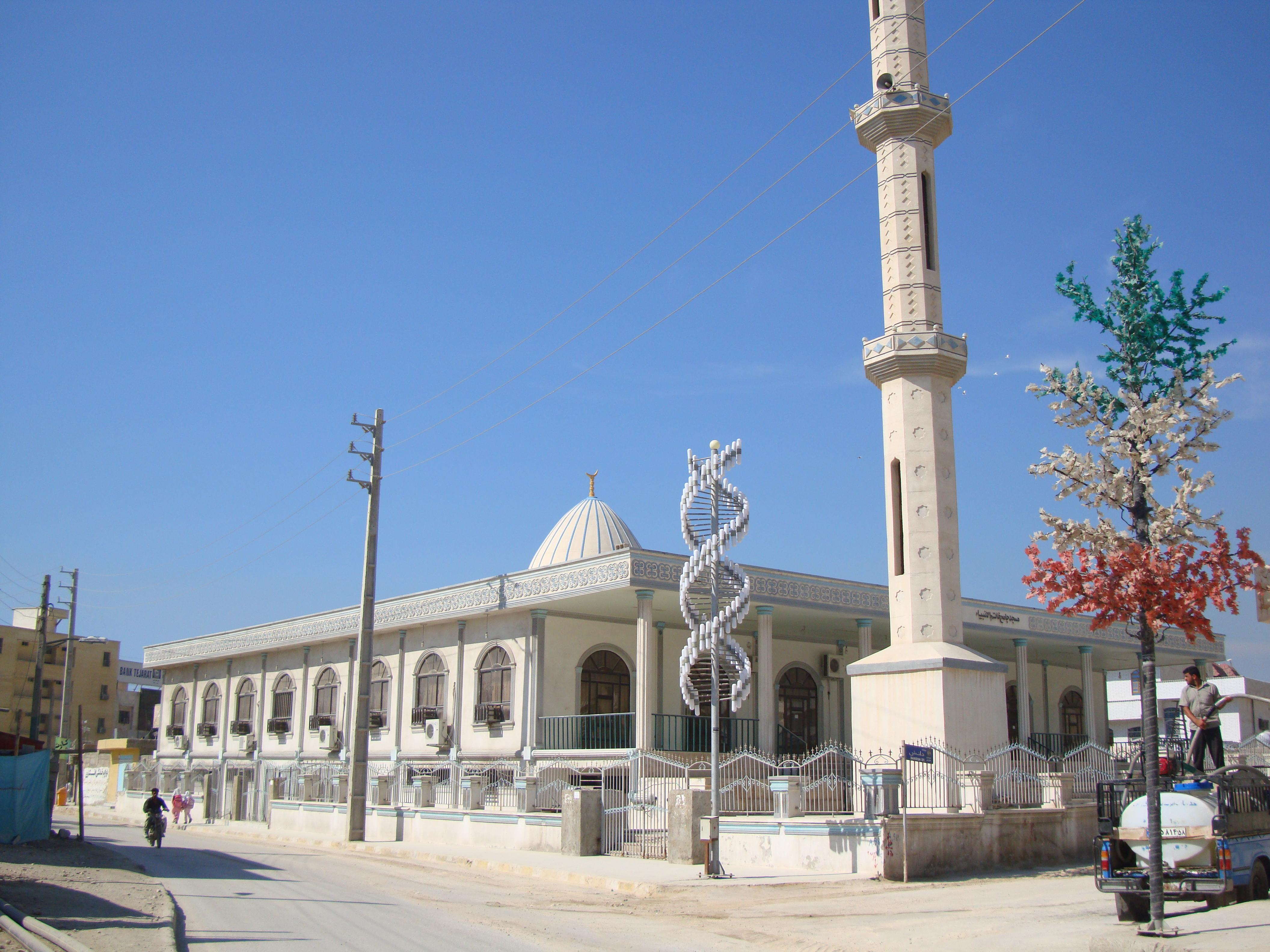 nakhl